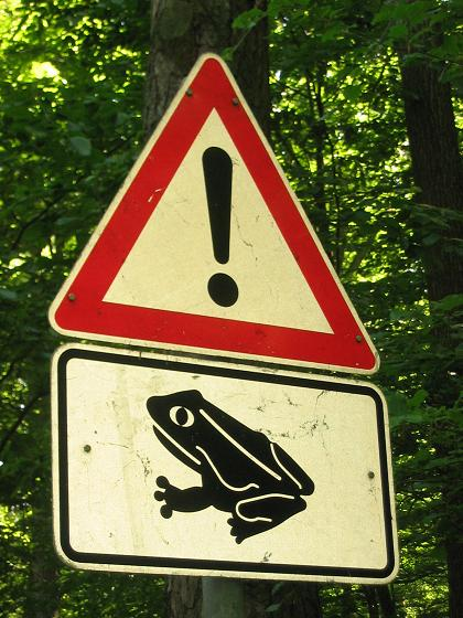 Road sign toad-migration at Parsteiner See nearby the peninsula Pehlitzwerder. The Parsteiner See is a finger lake (proglacial lake) in Germany, Brandenburg, District Barnim, and covers 10,03 km².